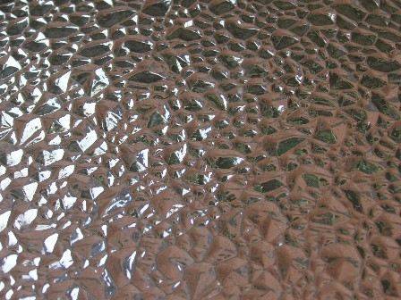 Architecture, Domestic glass, moulded glass.